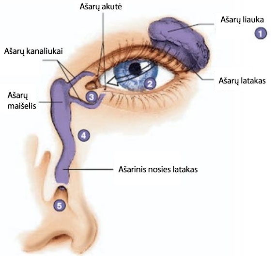 eye and its additive organs